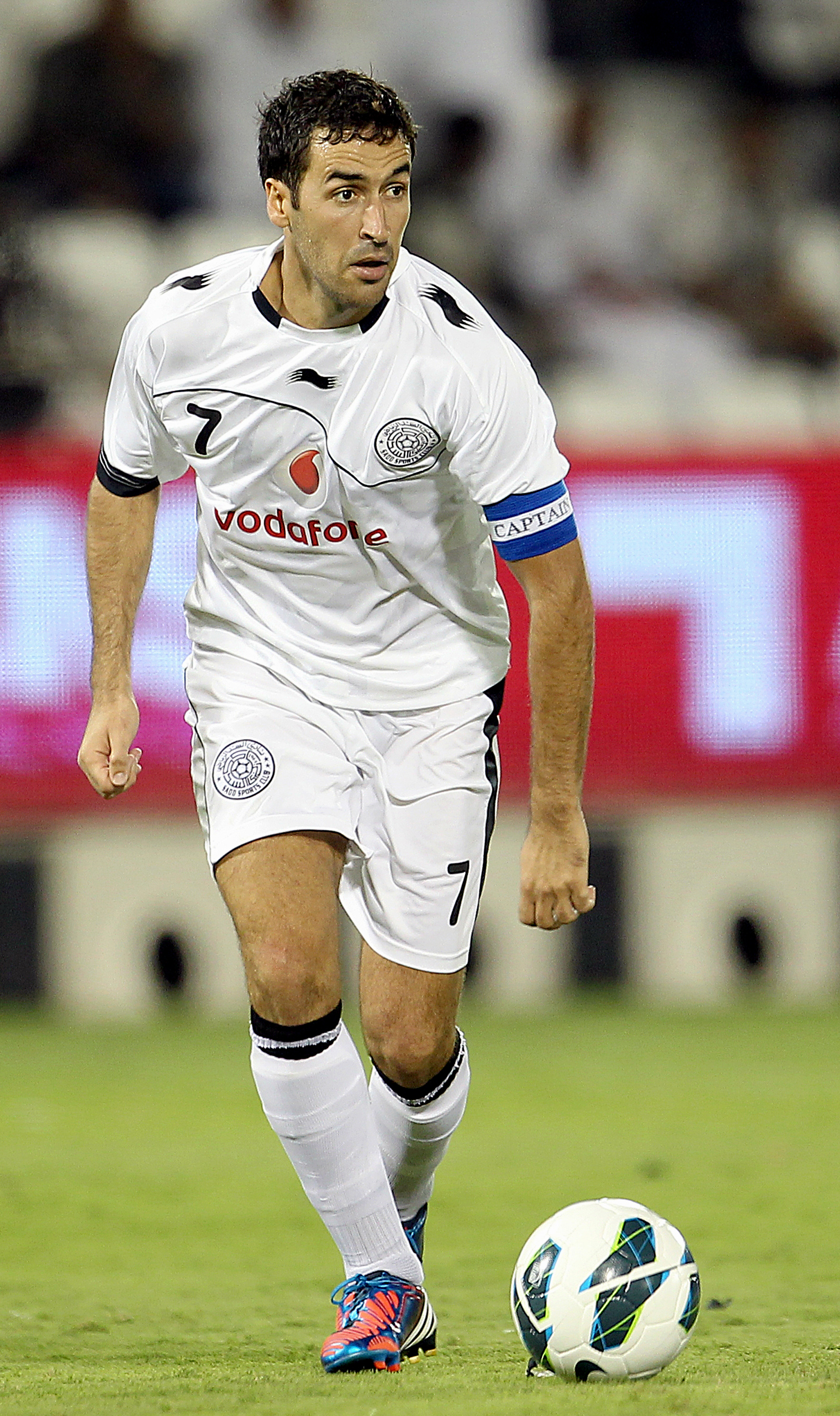 Raúl González in action during 2012-2013 Qatar Stars League match Al-Sadd vs Al-Arabi, 15 Septeber 2012